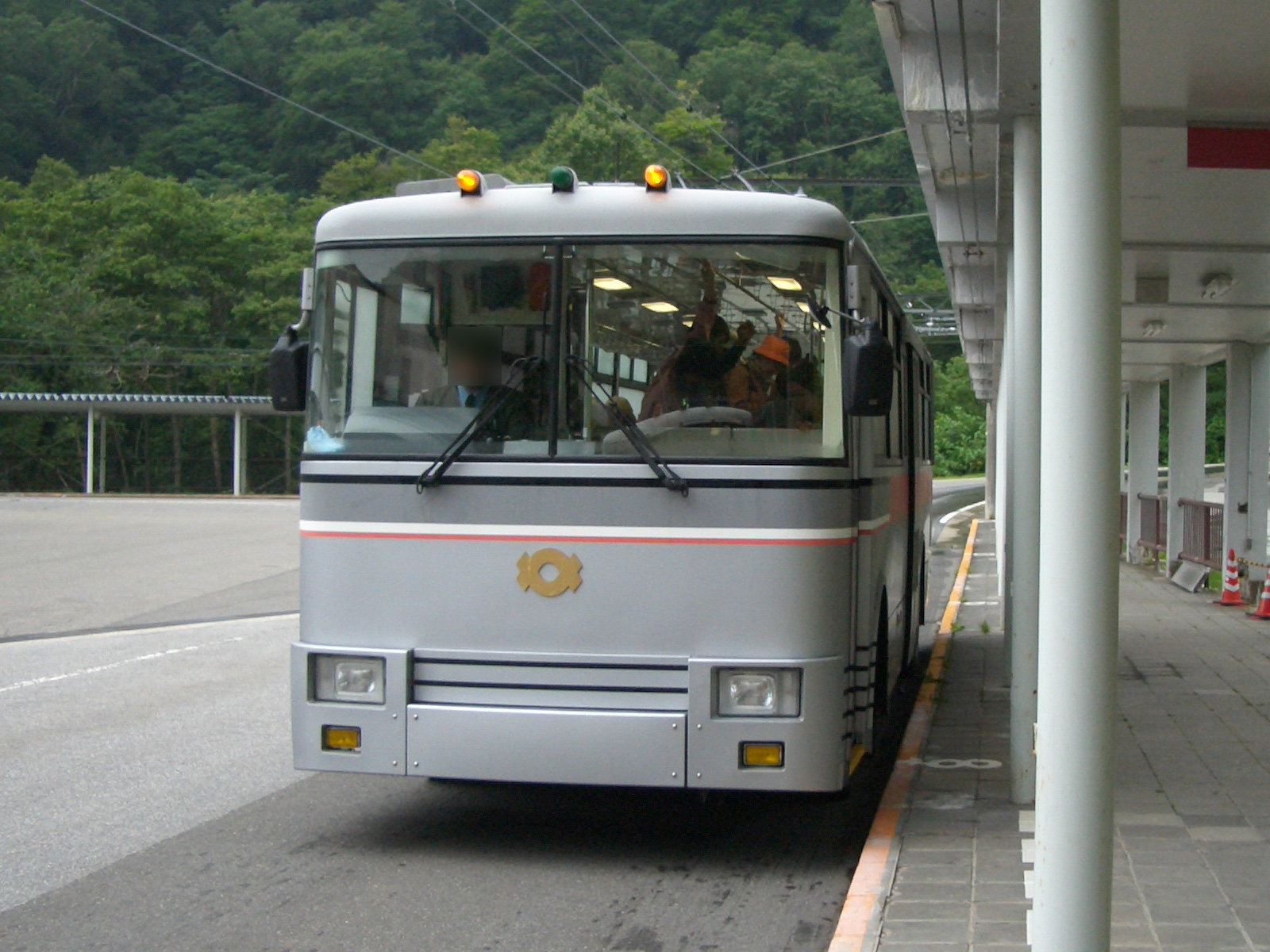 Kansai Electric Power type 300 trolleybus